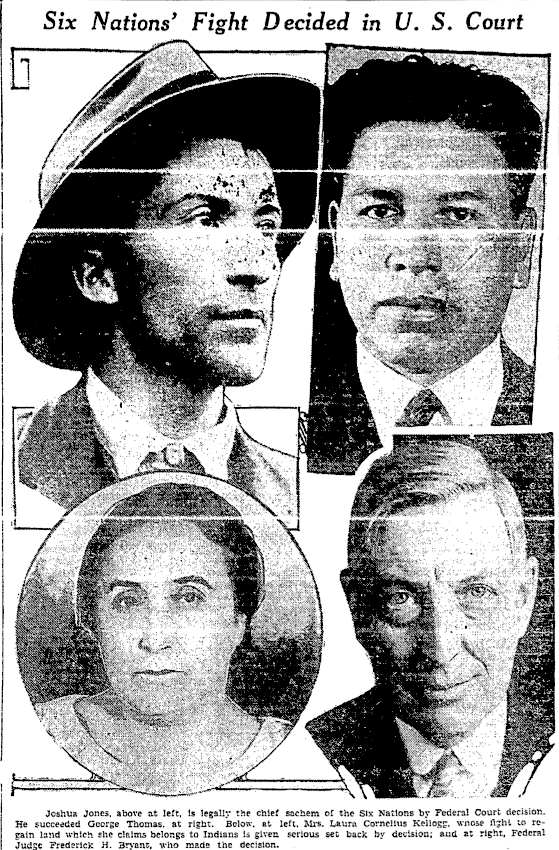 Six Nations Fight Decided in U.S. Court., August 9, 1929, p.4. Other information No. This work is in the public domain because it was published in the United States between 1923 and 1963 and although there may or may not have been a copyright notice, the copyright was not renewed. Unless its author has been dead for the required period, it is copyrighted in the countries or areas that do not apply the rule of the shorter term for US works, such as Canada (50 pma), Mainland China (50 pma, not Hong Kong or Macao), Germany (70 pma), Mexico (100 pma), Switzerland (70 pma), and other countries with individual treaties. See Commons:Hirtle chart for further explanation. Deutsch | English | español | français | italiano | 日本語 | 한국어 | македонски | português | português do Brasil | русский | українська | edit|Template:PD-U